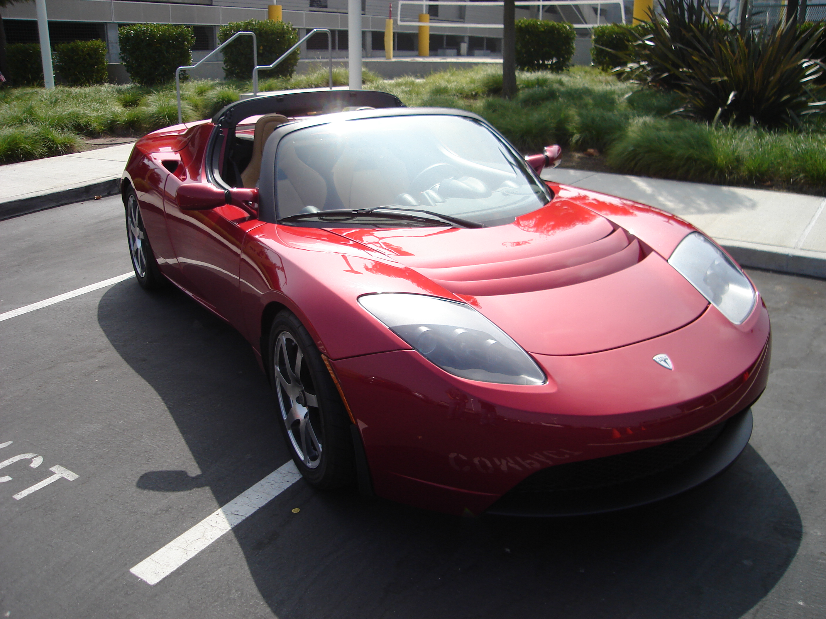 Tesla Roadster Engineering Prototype at Yahoo!.